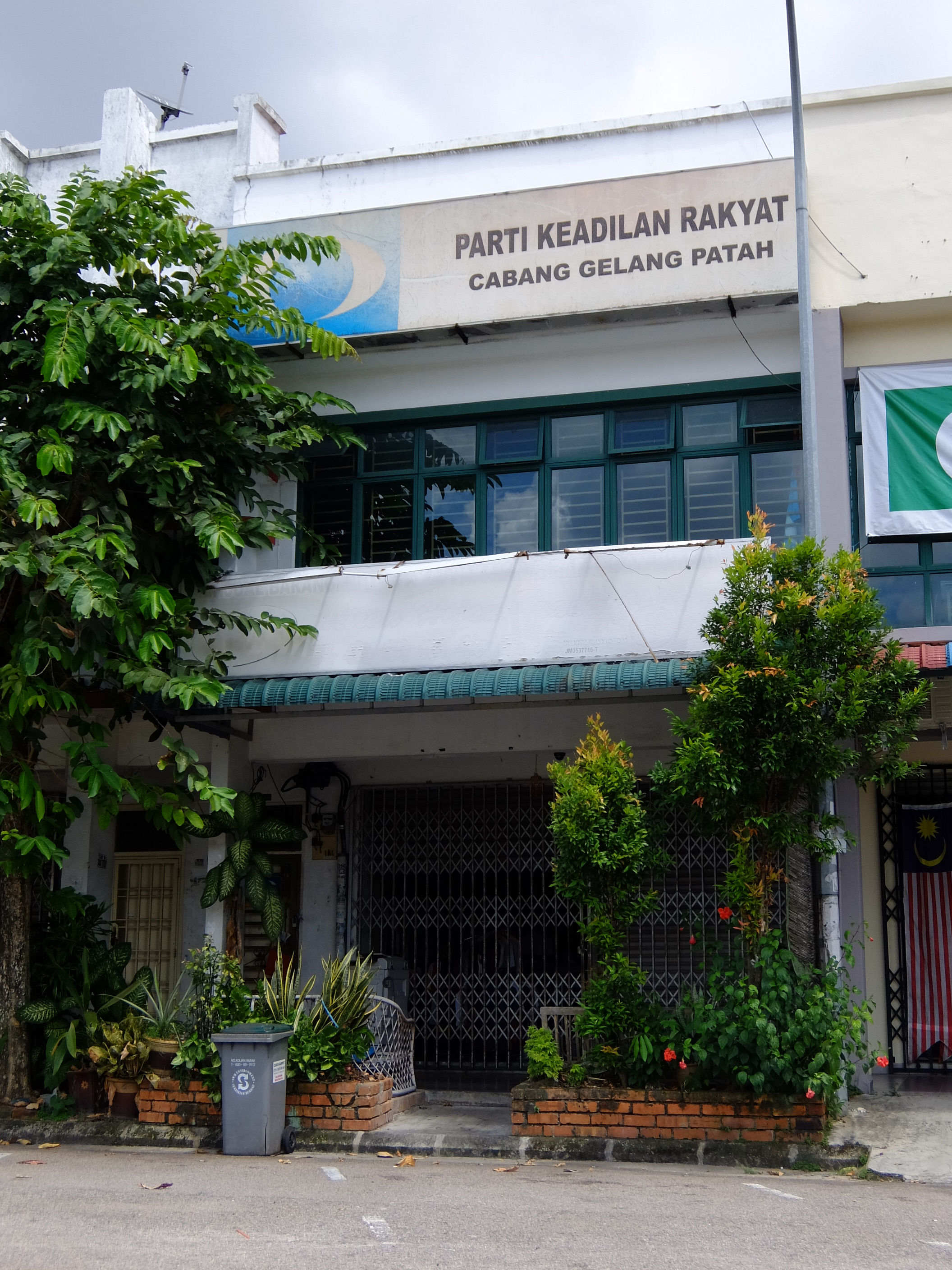 People's Justice Party, Skudai, Iskandar Puteri, Johor Bahru, Johor, Malaysia